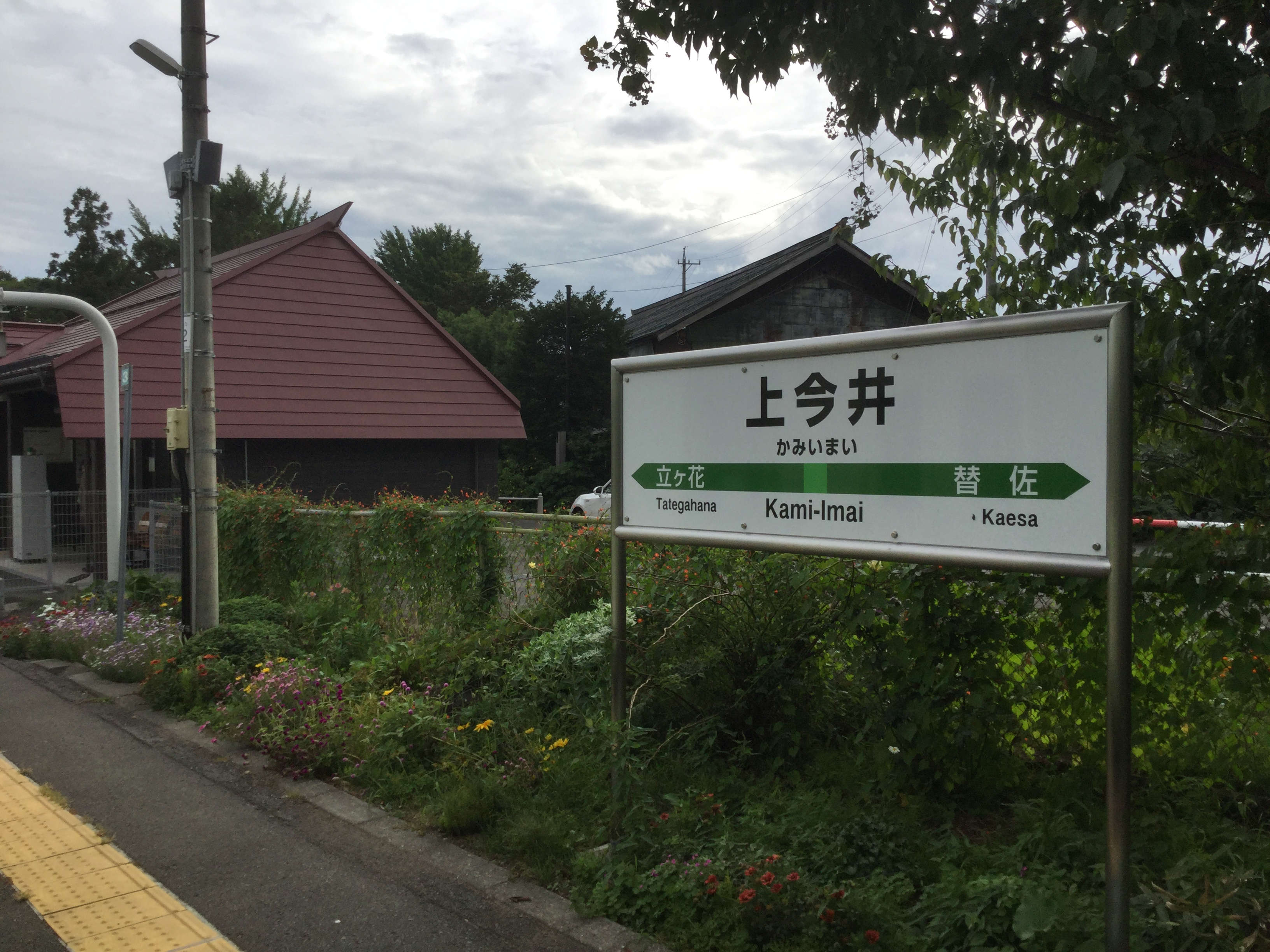 上今井駅のホーム (Kami-Imai Station platform)